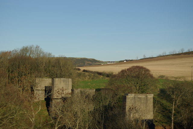 Remains of the former railway viaduct over the Rancleugh Burn